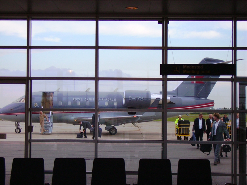 Royal Danish Air Force C-172, a Bombardier Challenger CL-604, arriving at Roskilde Airport at 6 July 2007 with Minister of Foreign Affairs Per Stig Møller and his delegation.